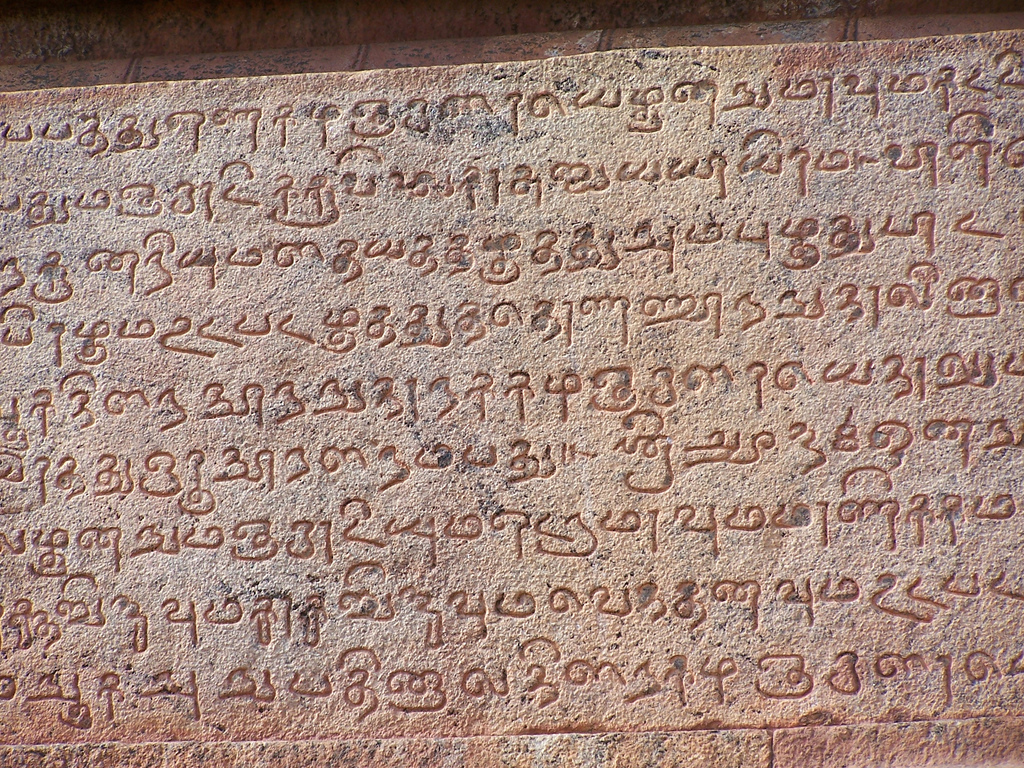 This script was found on the temple walls of the Thanjavur Thanjavur Brihadeeshwarar temple. This is very different from the present Tamil script.